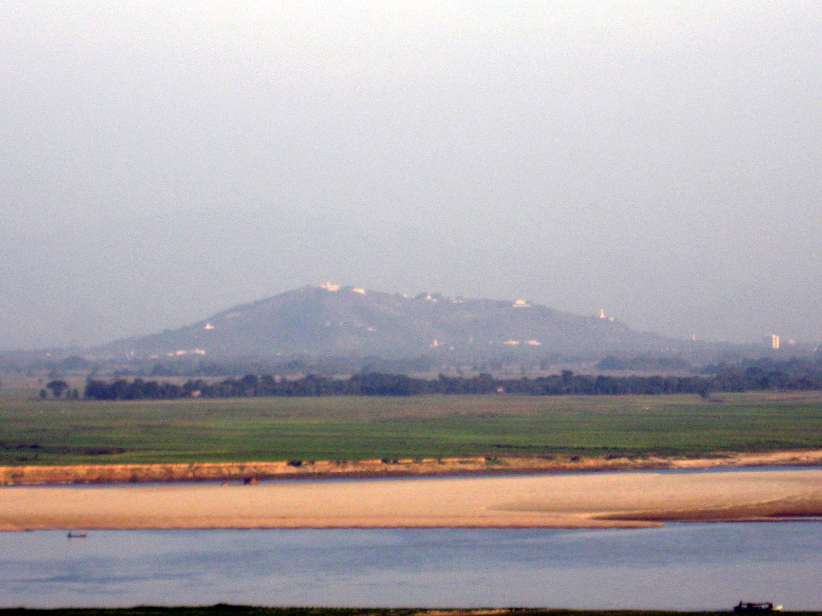 Mandalay Hill, seen from the west, from a boat or accross the Irrawaddy.